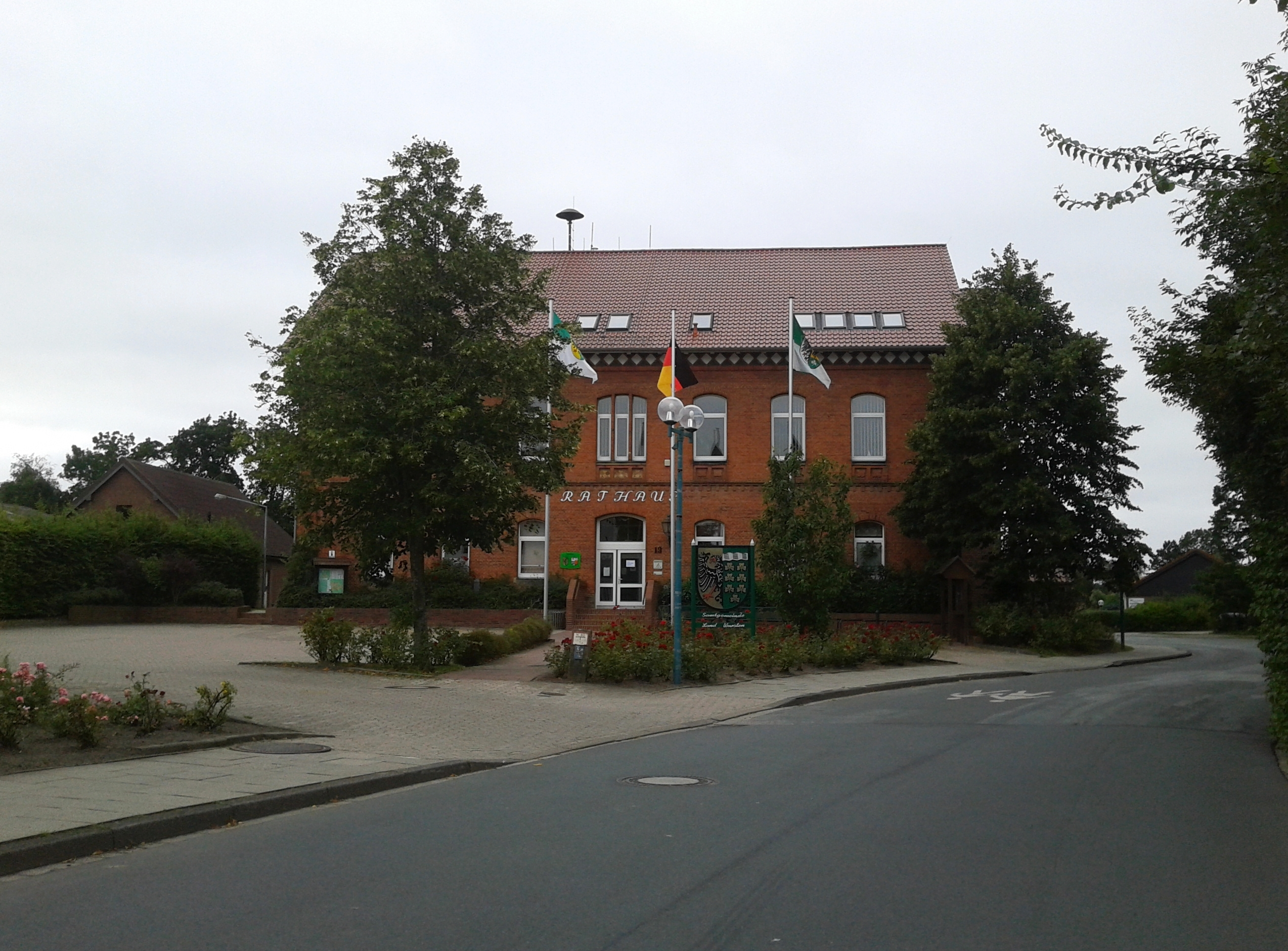 Dorum, Rathaus (Germany)